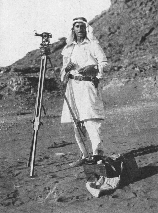 A. M. Hassanein Bey with the theodilite in the Libyan Desert.